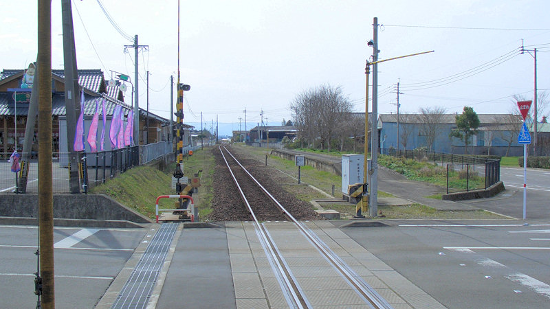 Kumagawa Railroad Taragi Station former platform, view towards Hitoyoshi-Onsen, 14 March 2007